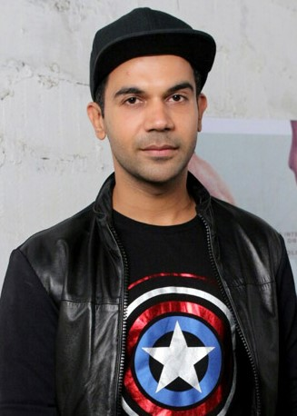 Rajkummar Rao at Eros International office.